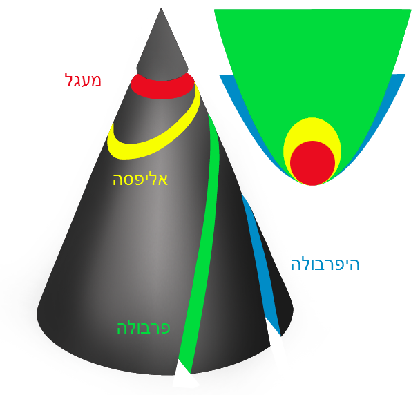 Taken from here, with Hebrew captions (by me)